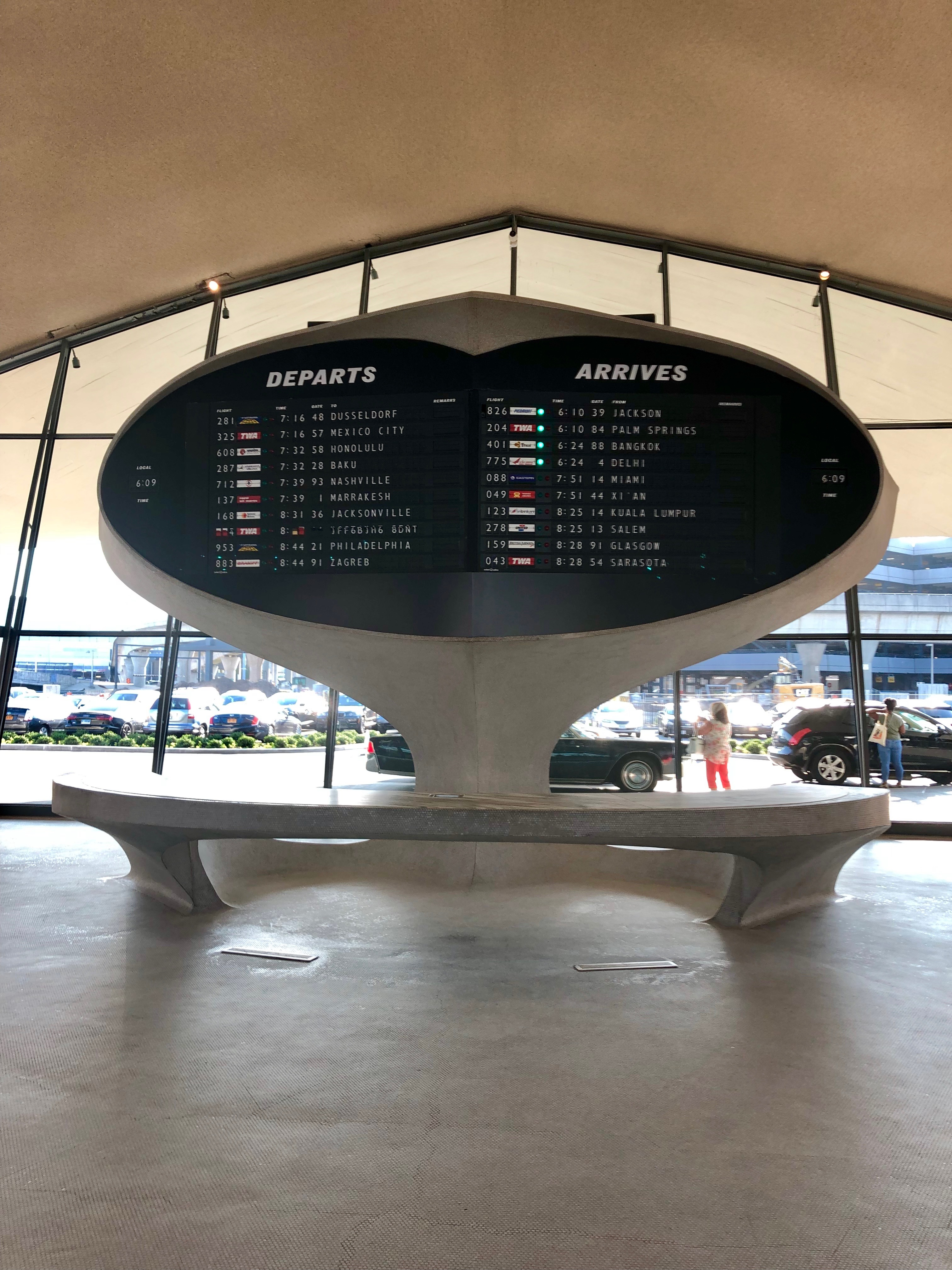 Departures Board, TWA Flight Center, John F. Kennedy International Airport, Jamaica, Queens, New York City, NY